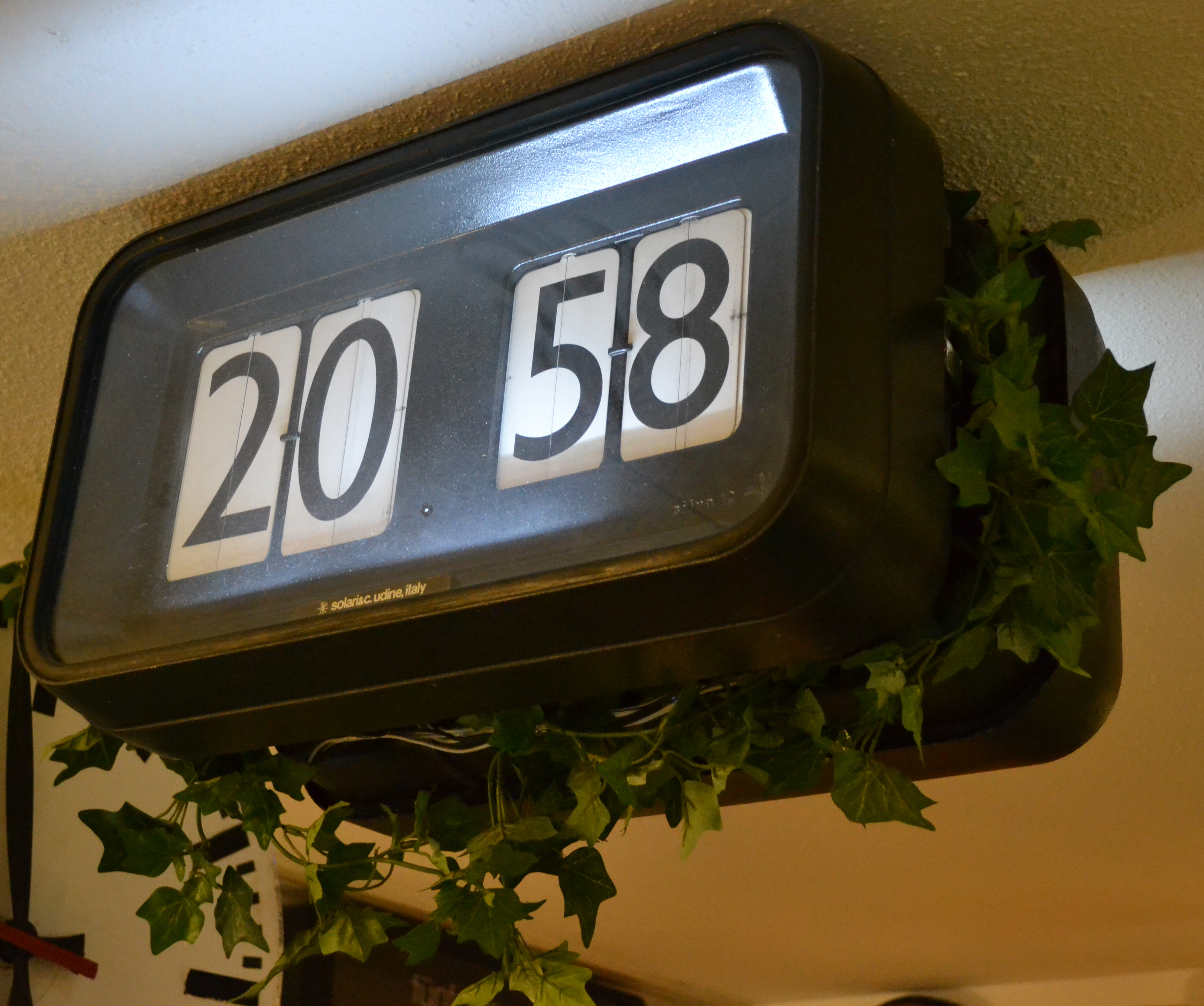 Solari Udine Cifra 12